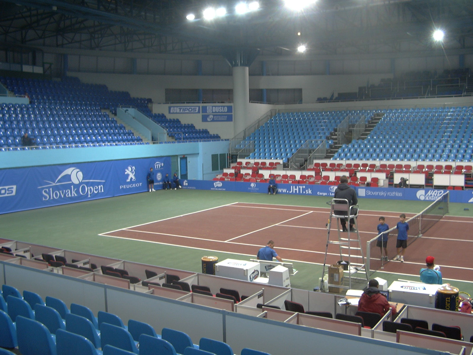 2011 Slovak Open: Jozef Kovalík vs. Horacio Zeballos